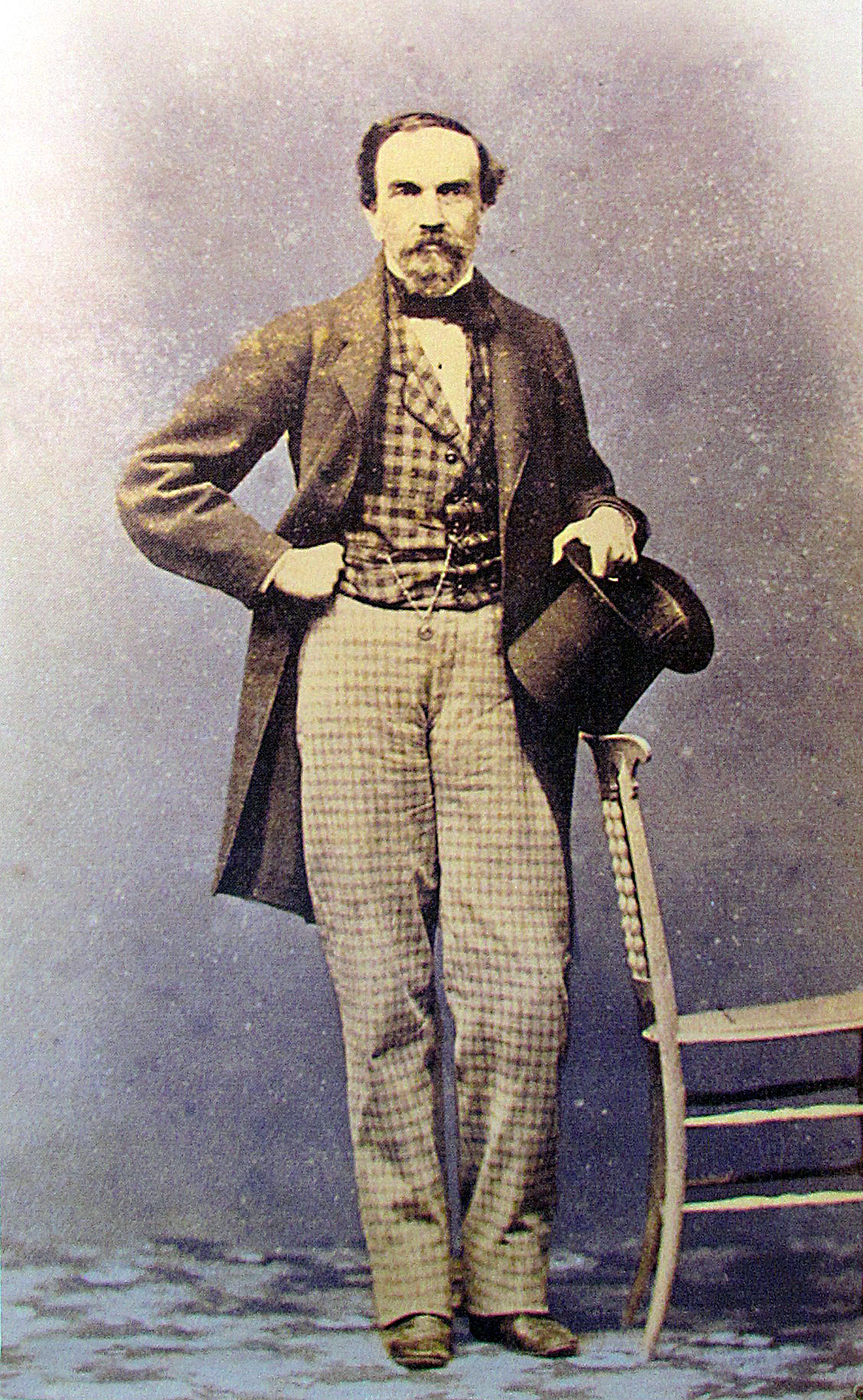 Baron Enrico Piraino di Mandralisca from Cefalu